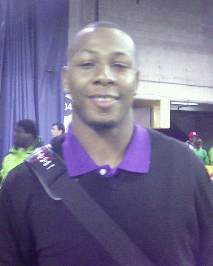 Michael Bishop (football player)